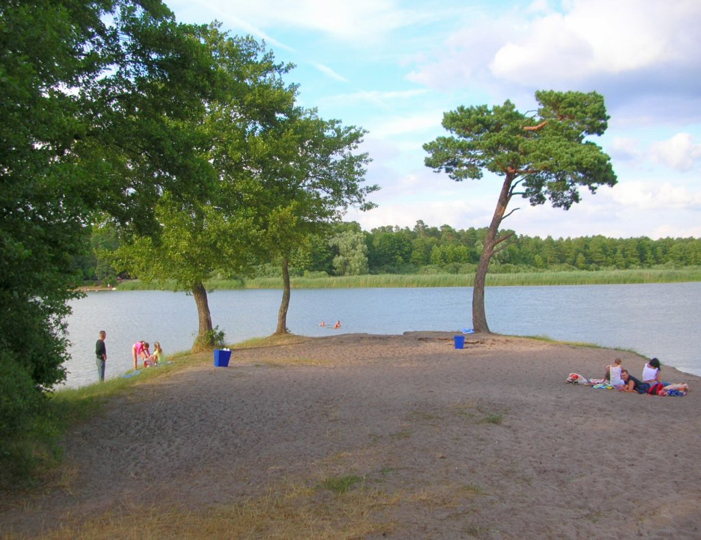 Jezuickie Lake